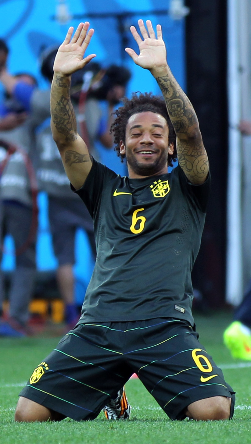 Brazil national team training for 1 day before the start of the first game of the 2014 World Cup qualifier against Croatia 2014-06-11